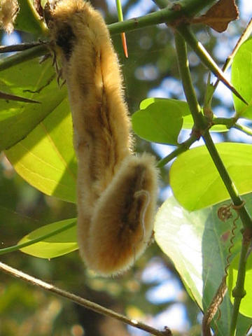 Cow itch or kaj kujli. The pod is covered by hair like structures that result in an allergic reaction. The skin start itching.The pods are roasted on a fire to get rid of the hairs and the inner nuts eaten during famine.